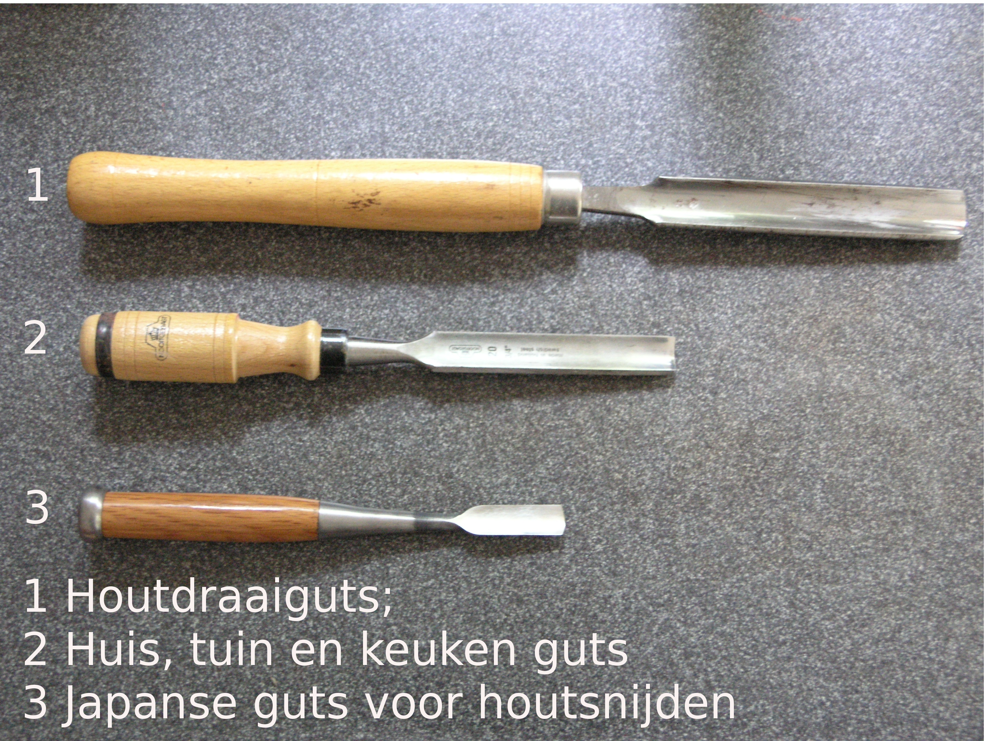 Three wood gouges